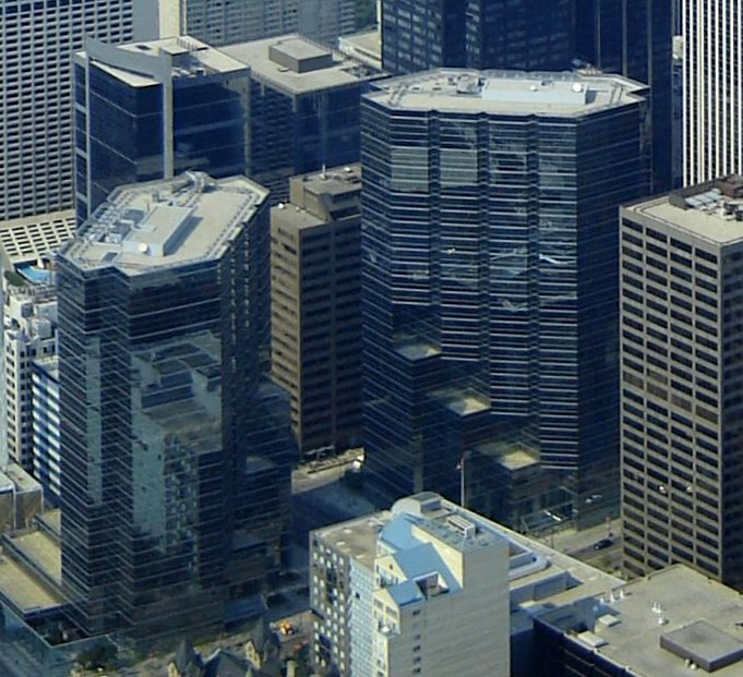 Sun Life Centre as seen from the CN Tower.